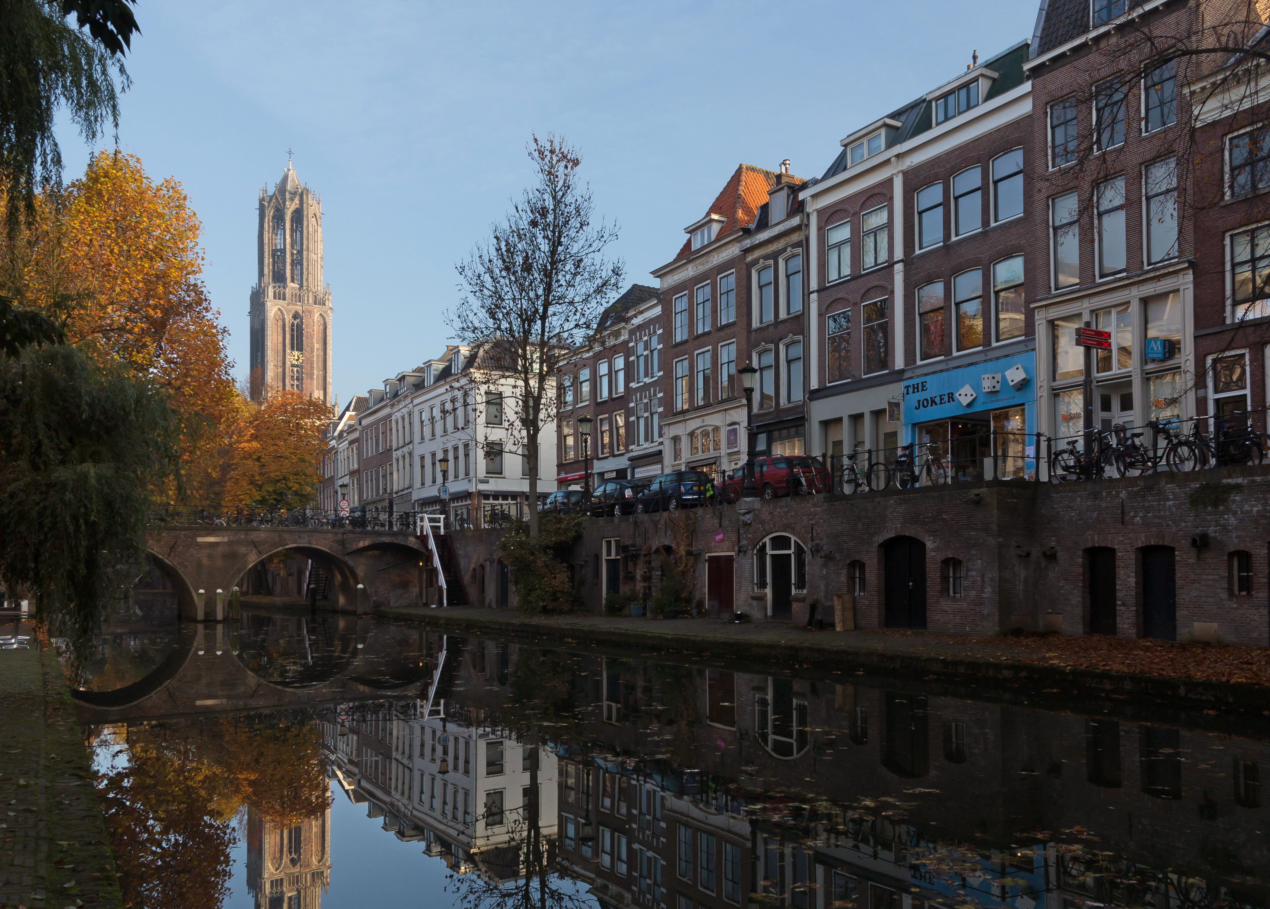 Utrecht, tower of the Dom Church from Oudegracht (approximately nr. 230)